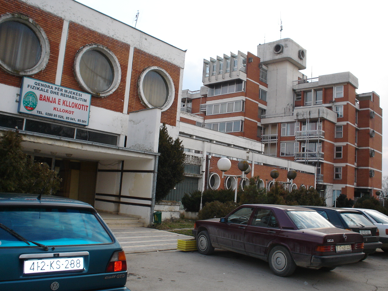 Center for physical medicine and rehabilitation Location: Kllokot - Kosovo